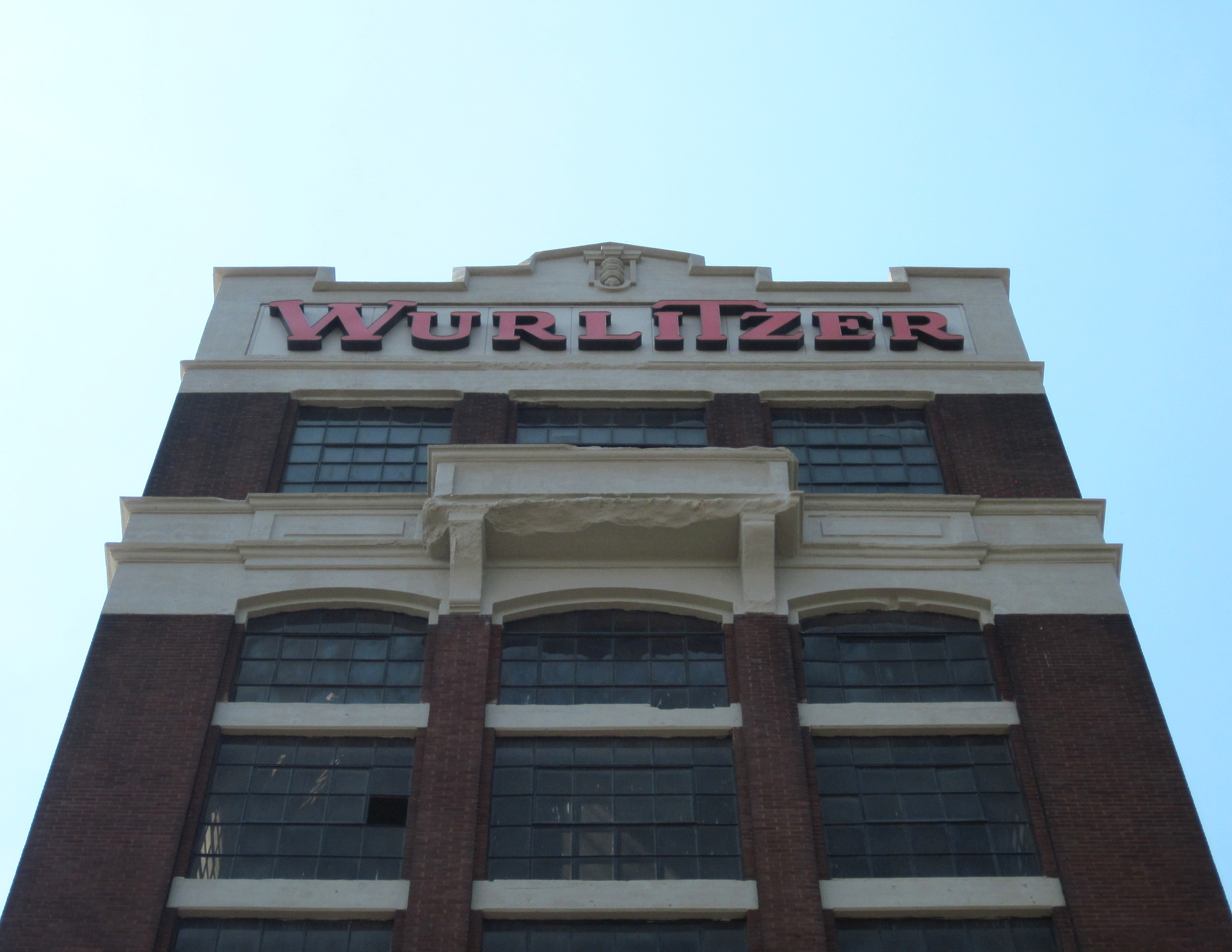 Tower top of the North Tonawanda Barrel Organ Factory (also known as the Wurlitzer Building) in North Tonawanda, New York. The 750,000 square foot (70,000 m2) complex was constructed between 1893 and the 1950s; the distinctive front tower was built by 1924 to house a massive water tank in case of a fire. The building now houses over 30 small businesses. Having been exposed to a number of Wurlitzer instruments, I was very happy to be able to see this building while visiting a friend.